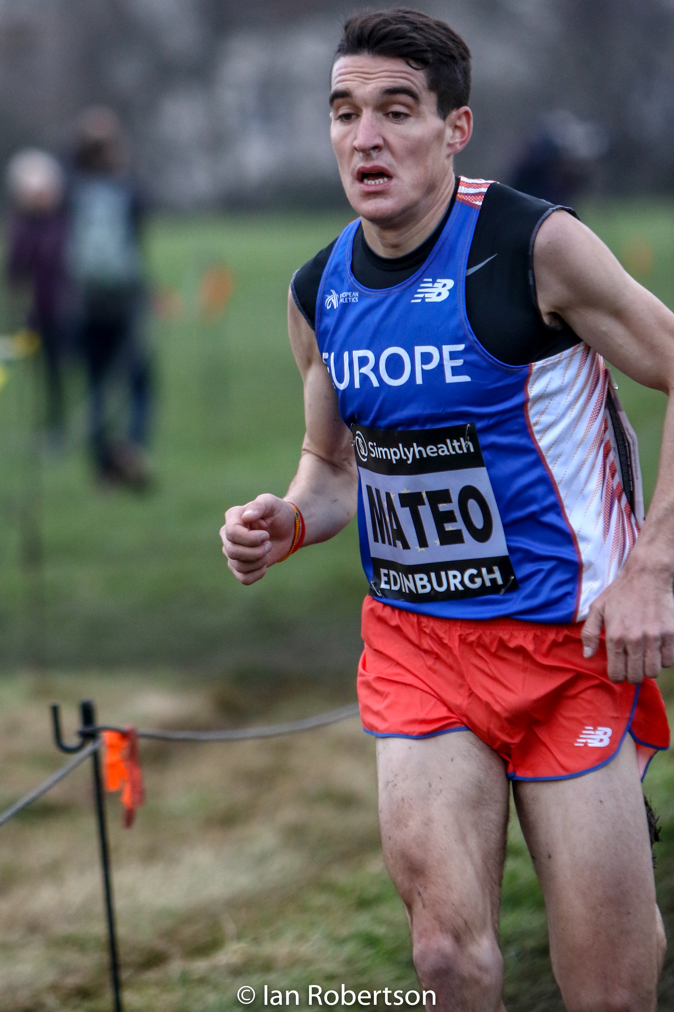 Great Edinburgh International Cross Country 2018 – Senior Men's 8km